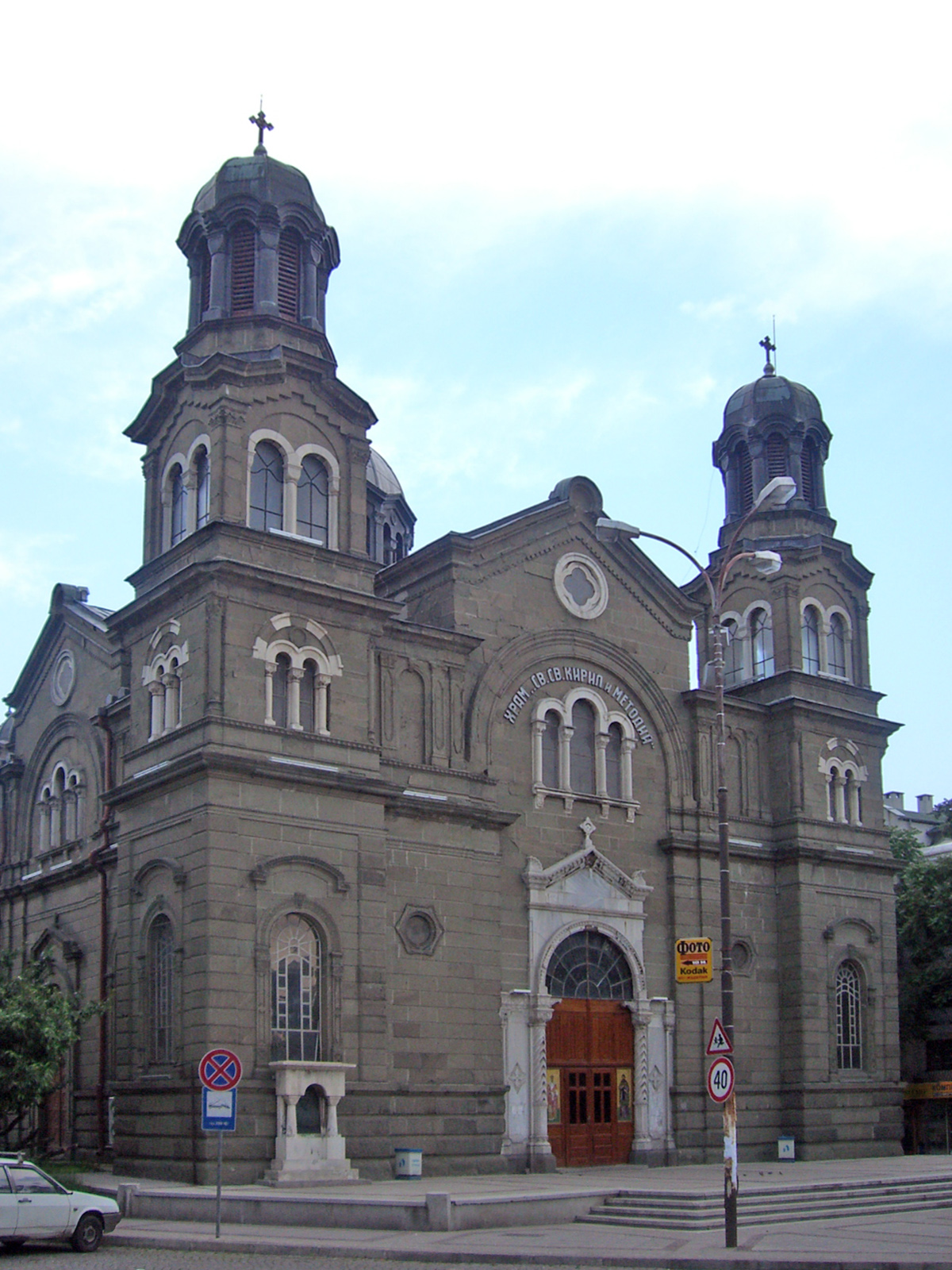 Cathedral St. Kyril and St. Methodius in Burgas, Bulgaria